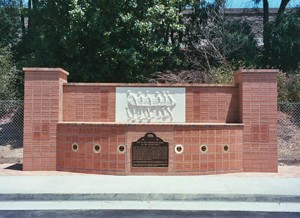 Author: Harry Jarnagan Source URL: Website: Note: I have permission from the author and I am his son. This image is being used legally.